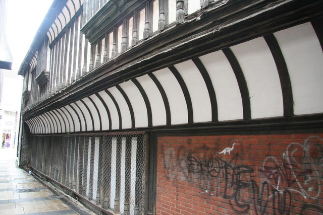 Akrill's Passage Narrow passage off High Street known as Akrill's Passage with the jettied half-timbered building variously known as Whitefriars House, Akrill's Court or 333 High Street